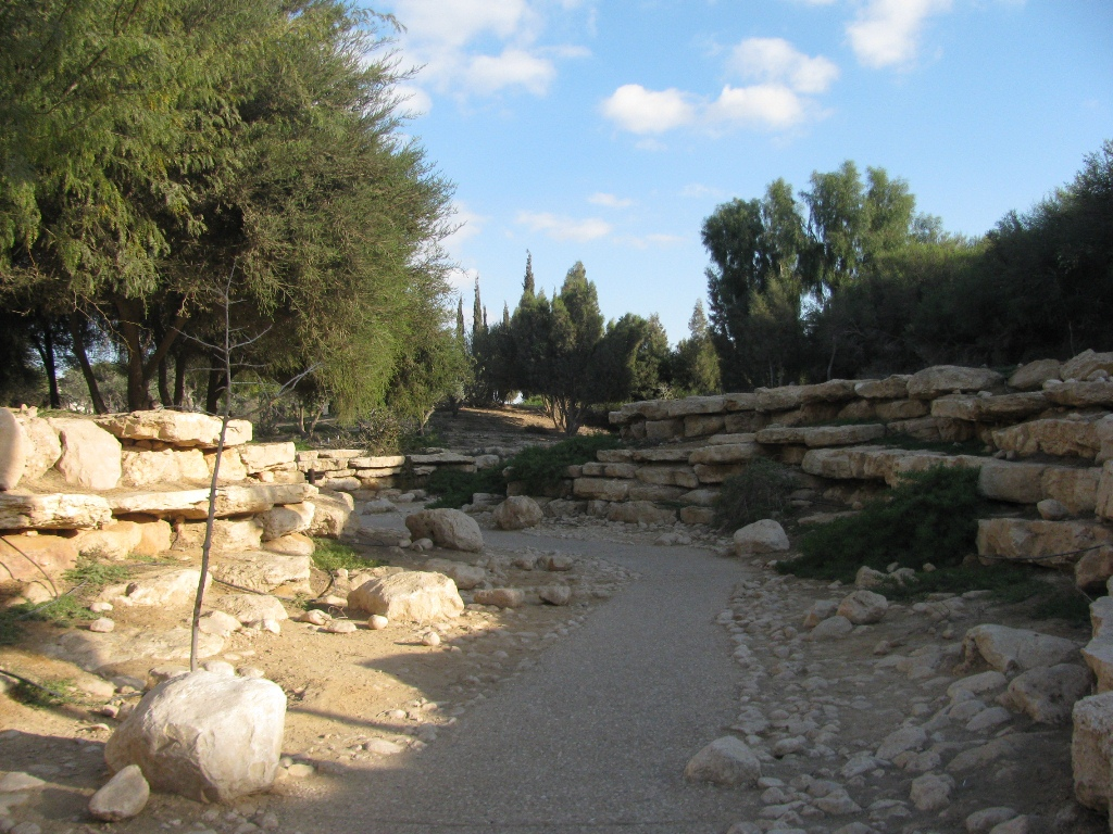 National Park road to the Tomb of Ben - Gurion